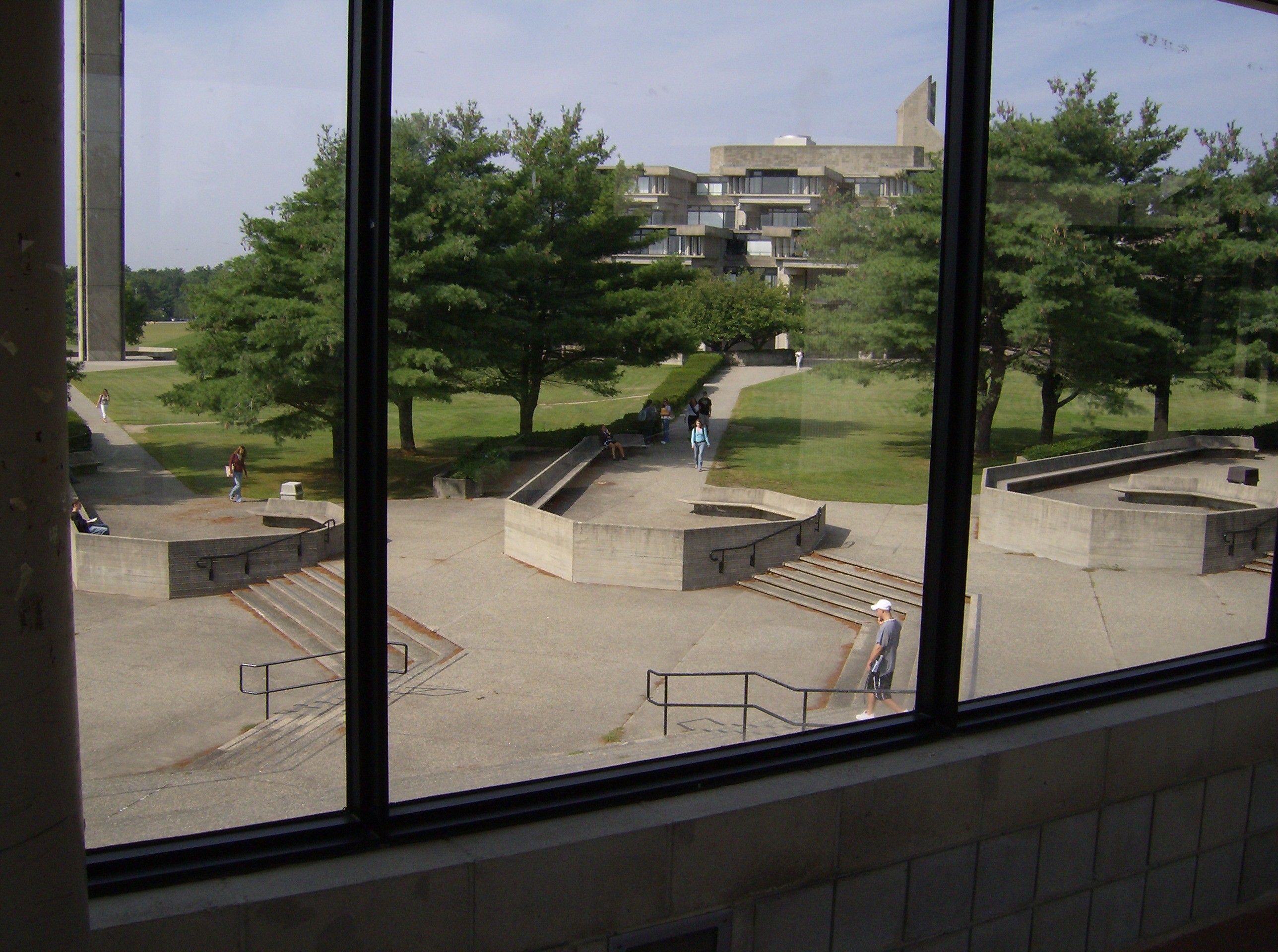 Pictured are two of the "666"s found on the University of Massachusetts Dartmouth campus: benches shaped like 666, and six stairs next to each of them.